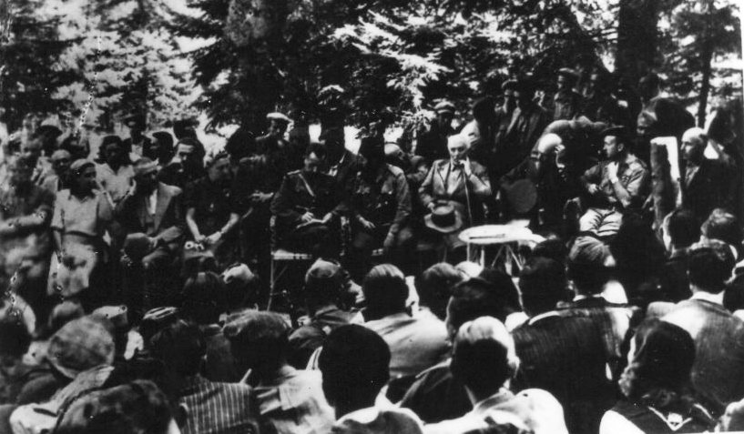 EAM conference in Kastanija, Thessaly This media file is produced by Wikipedian in Residence in Category:Wikipedian in Residence at DARM in 2016.